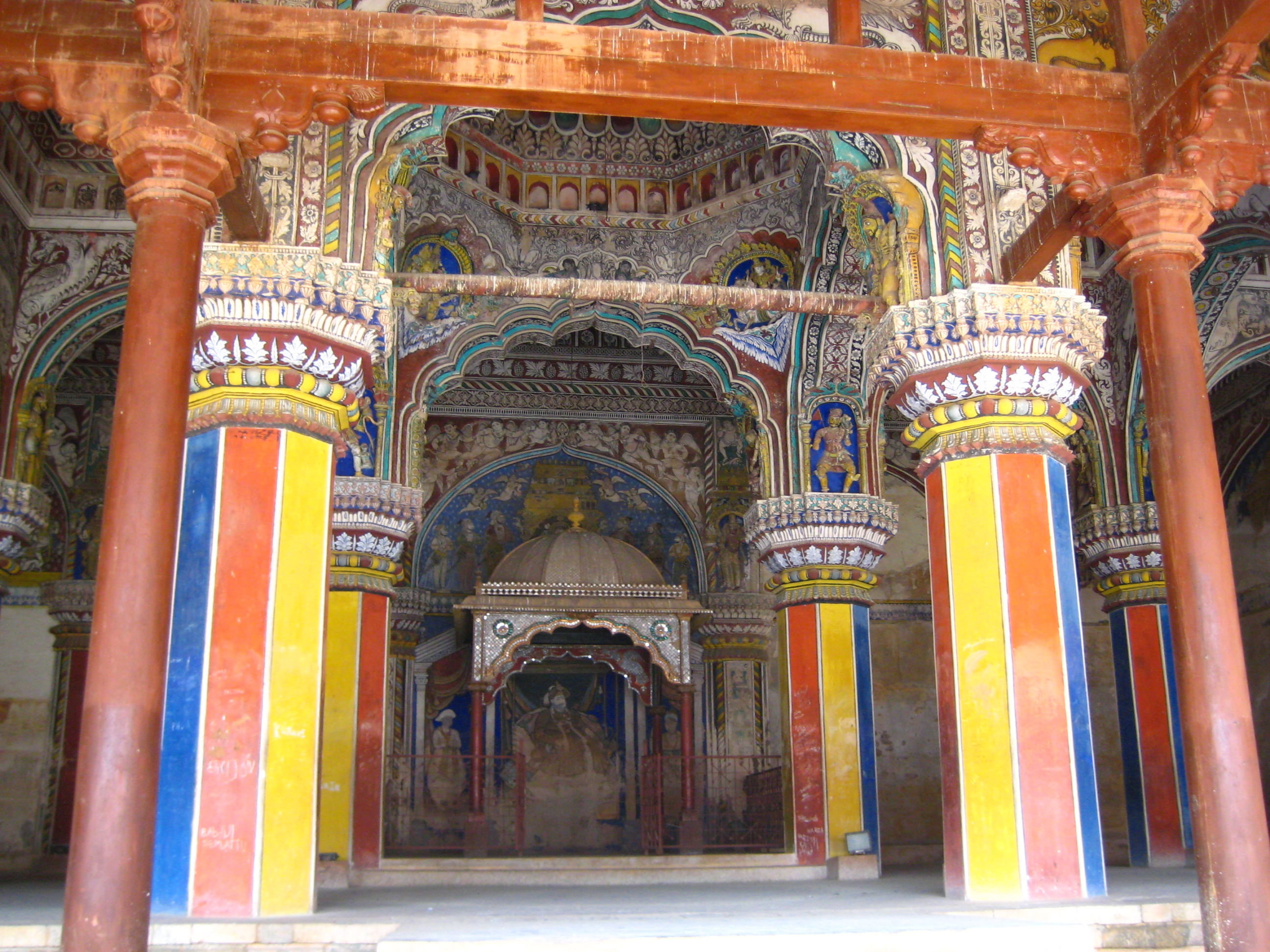 Tanjore Royal Palace (Thanjavur). Thanjavur is one of the ancient cities in India and has a long and varied history dating back to the Sangam period. The town was founded by Mutharayar king Swaran Maran and rose to prominence during the rule of the Later Cholas when it served as the capital of the Chola empire. After the fall of the Cholas, the city was ruled by various dynasties like Pandyas, Vijayanagar Empire, Madurai Nayaks, Thanjavur Nayaks, Thanjavur Marathas and British. It has been a part of independent India since 1947.